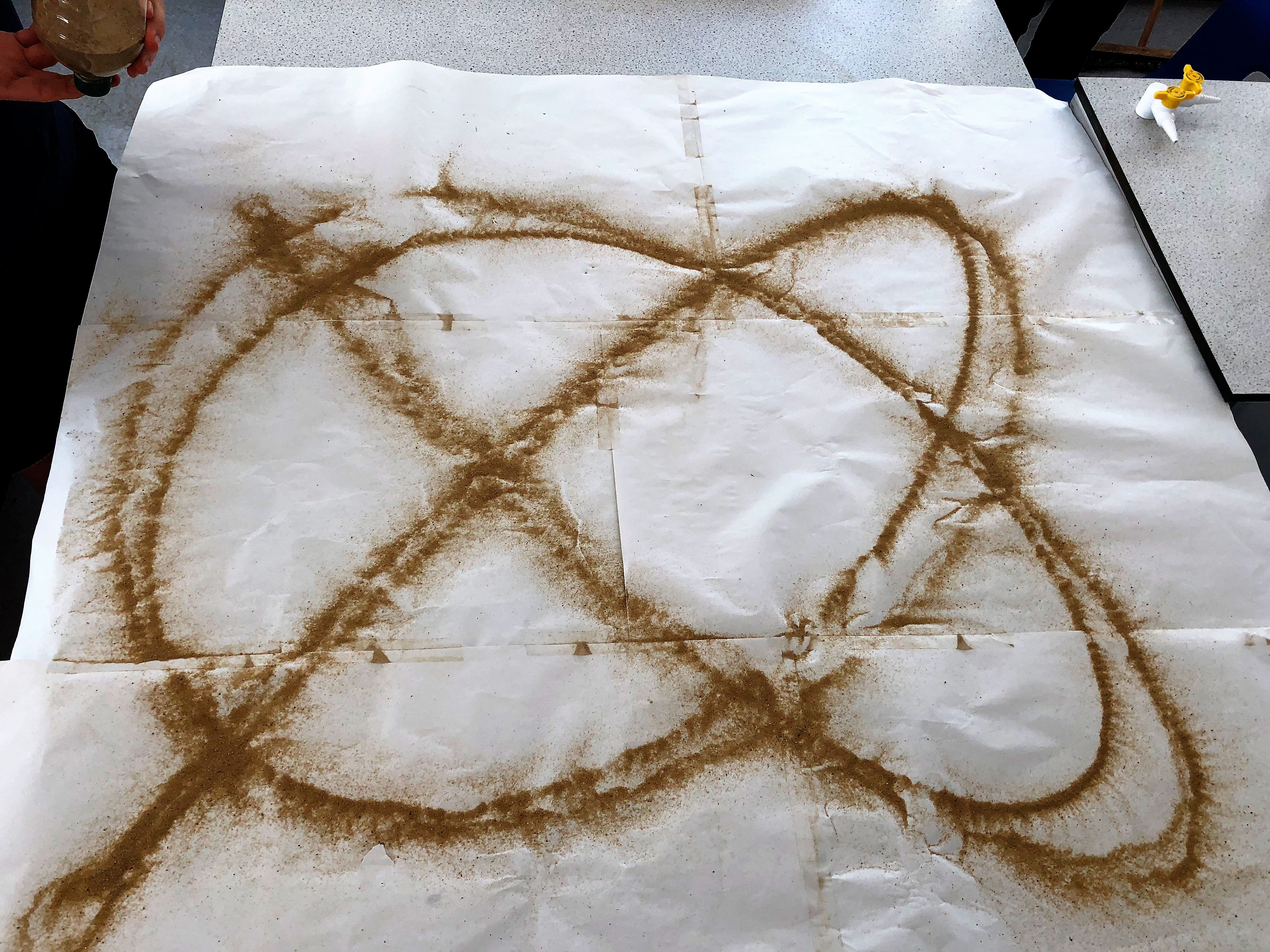 A Lissajous figure produced by sand released from a swing container